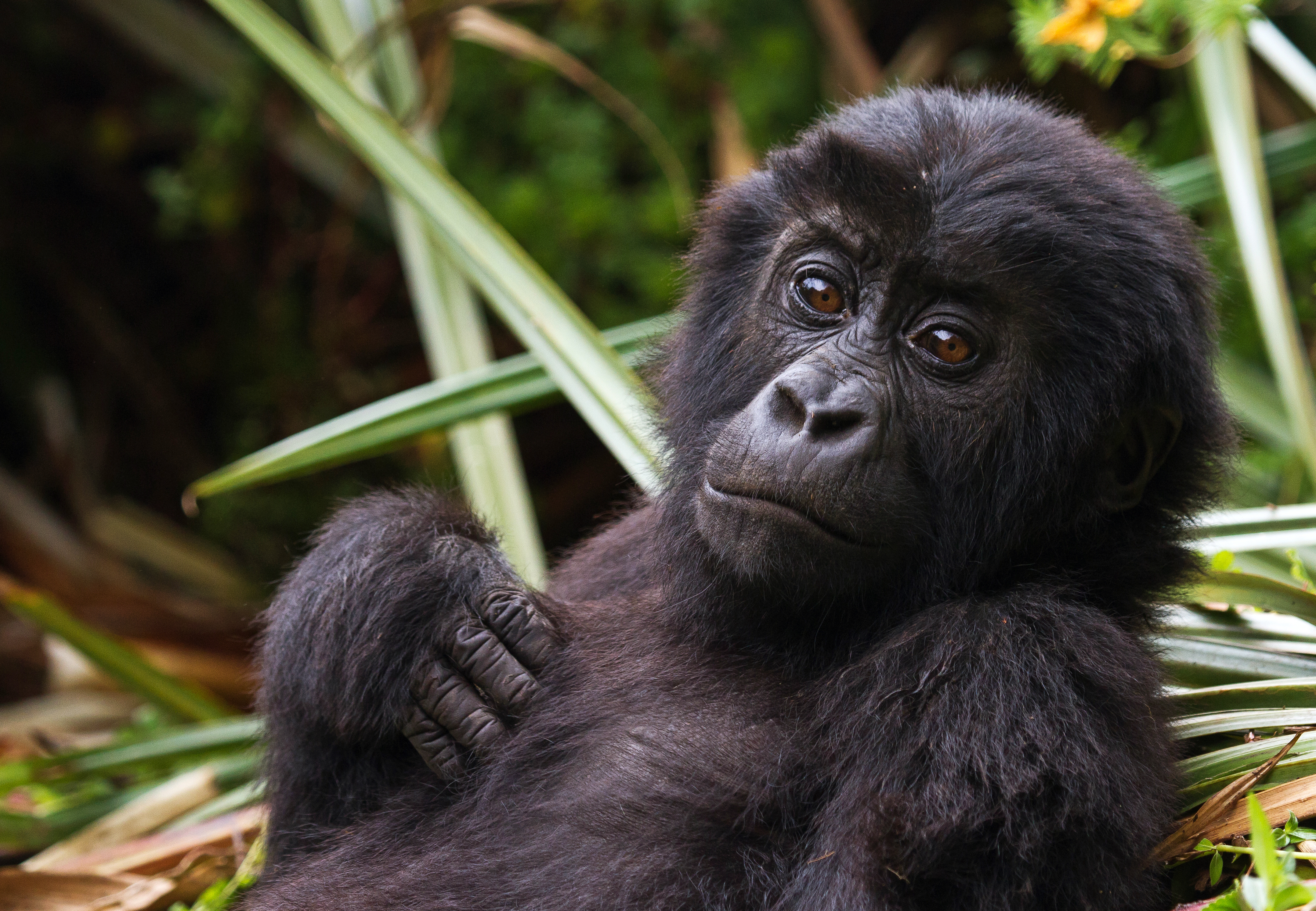 Photo of Cimanuka Group, Eastern Lowland Gorilla taken on another day of trekking in Kahuzi-Biega National Park. The Cimankua group currently has 37 members and is dominated by a sole Silverback. Being the sole visitor in a 6000 sq. km. park and camping with the rangers gave me great access to these wonderful gorillas.